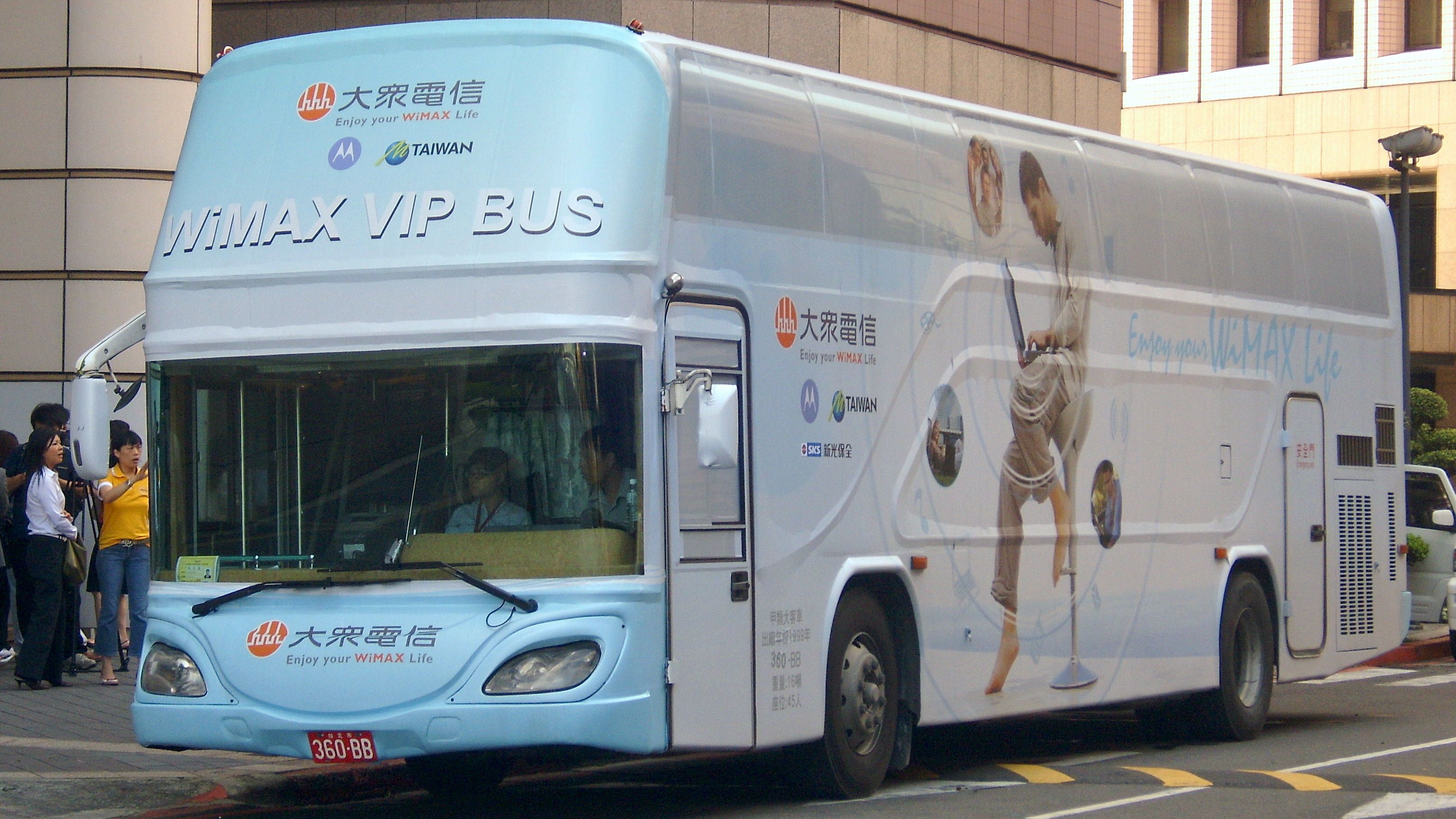 2008 WiMAX Expo Taipei: First International Telecom WiMAX Bus (360-BB).